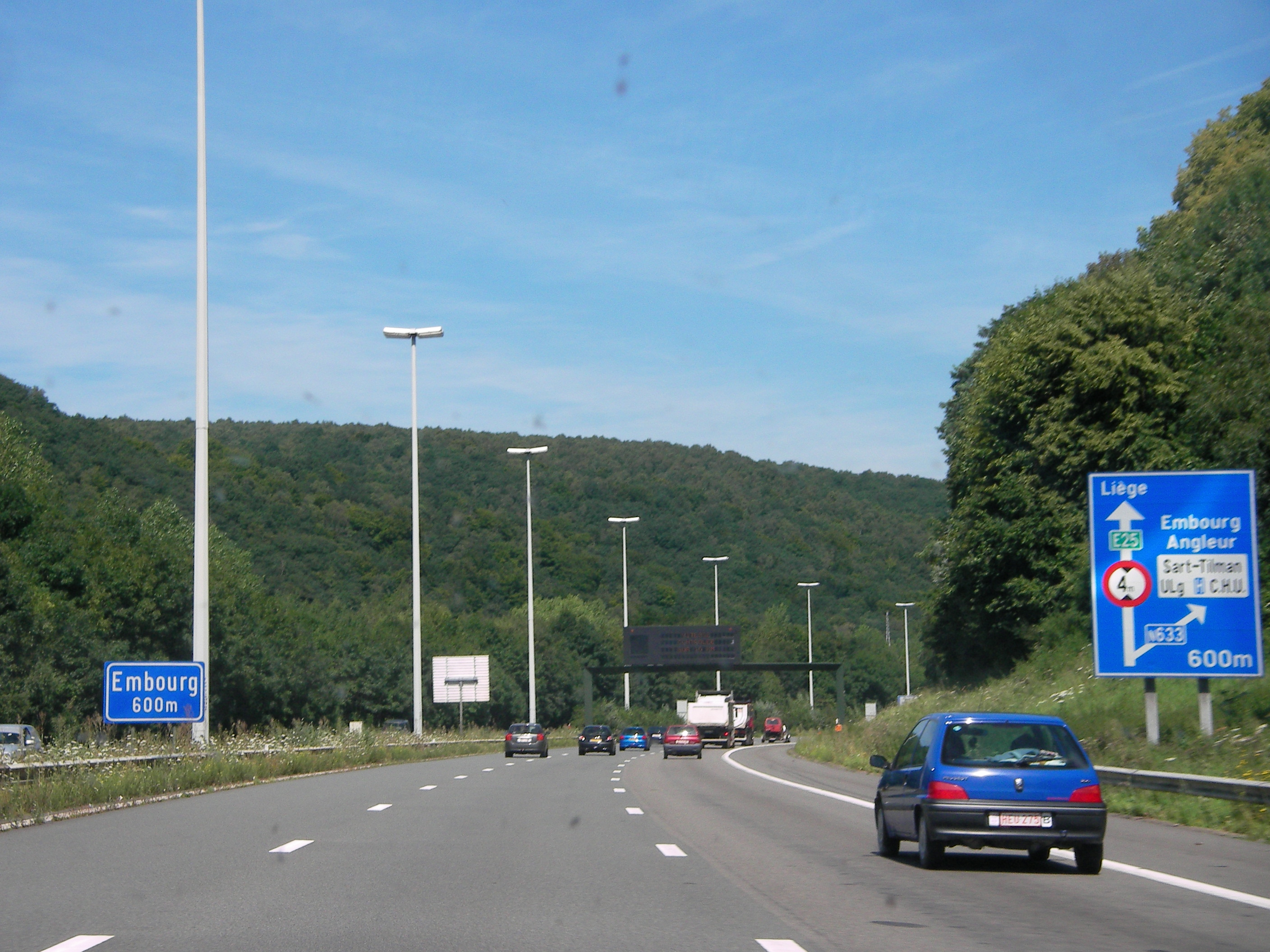 A26 in Belgium near Liège.